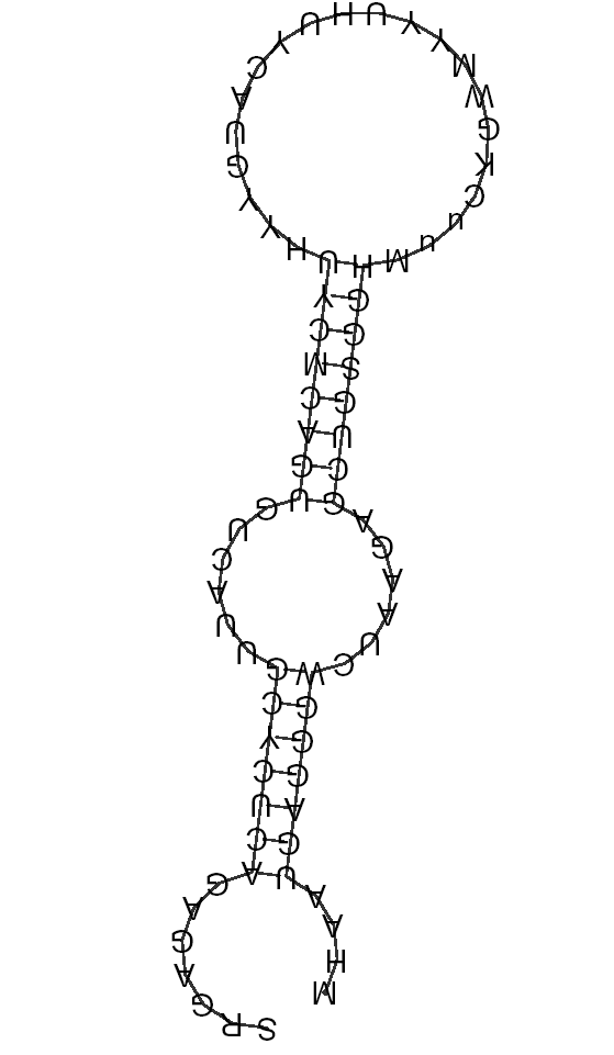 RNA secondary structure of TB3Cs2H1 generated by the WAR server( It is the consensus structure from several Trypansomatid species -Trypanosoma brucei, Trypanosoma brucei gambiense, Trypanosoma cruzi, Trypansoma vivax --with some manual editing and redrawing of the structure with RNAplot from the Vienna RNA package